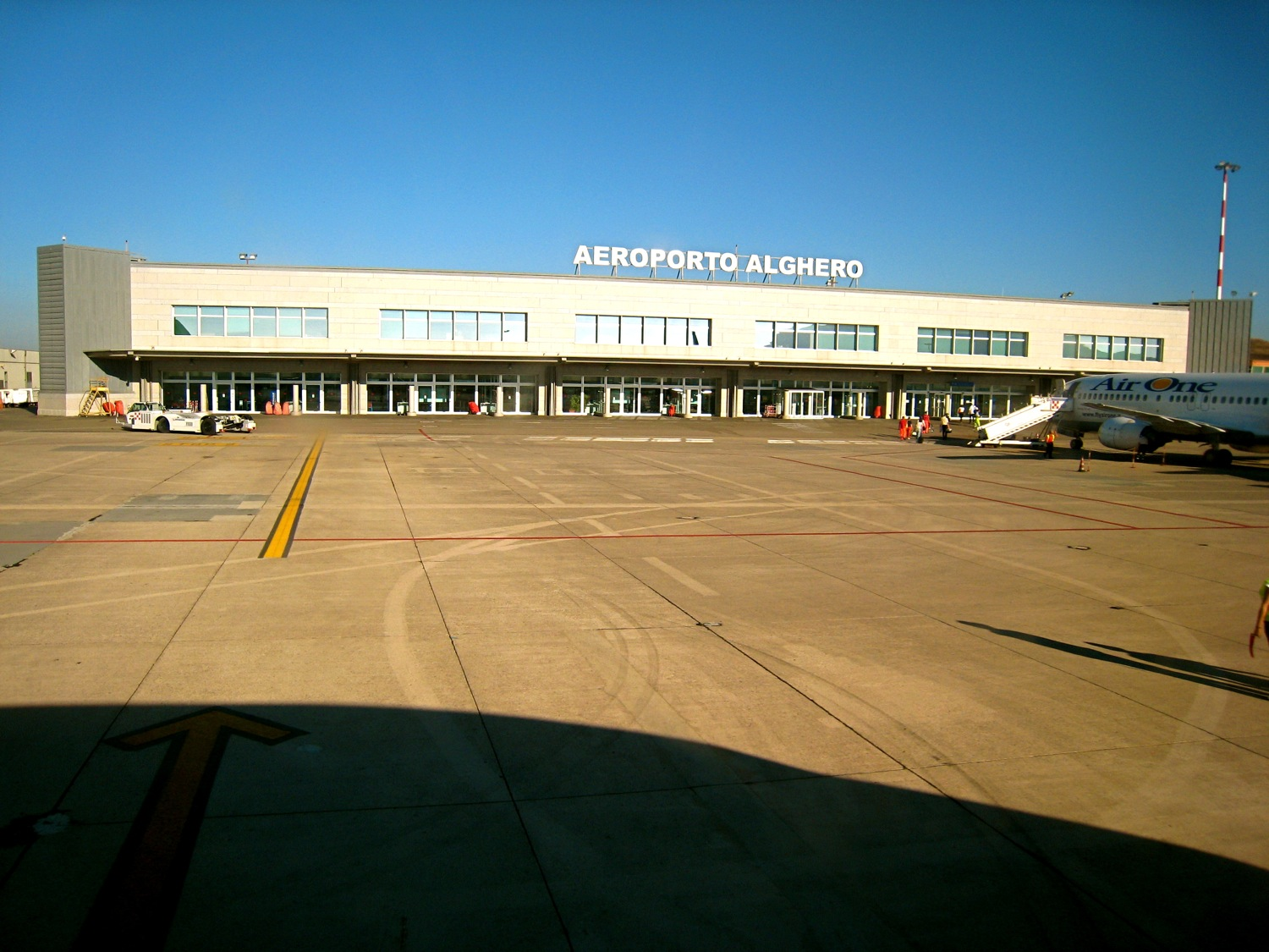 Alghero-Fertilia airport, Italy Fertilia Airport or Alghero Airport (IATA: AHO, ICAO: LIEA) is situated 4.3 NM (8.0 km; 4.9 mi) north northwest of the city of Alghero, in northern Sardinia, Italy. It is one of the three main airports serving Sardinia, the others one being Olbia in the northeast, and near Cagliari in the south. Domestic flights from nine Italian airports provide around 600,000 passengers annually for the years 2000 to 2004, while fifteen international connections have had as a result a dramatic increase of passenger traffic from 100,000 in 2000 to 400,000 in 2004, bringing total traffic to about 1 million passengers per year. The airport is operated by SOGEAAL (Societa di Gestione Aeroporto Di Alghero).